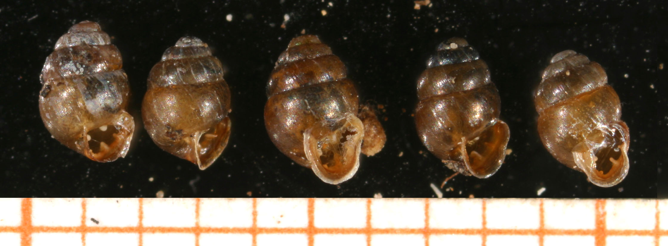 Photo of Vertigo moulinsiana. Scale in mm. Locality: Germany: Schulensee near Kiel. Date: 07-10-2001.